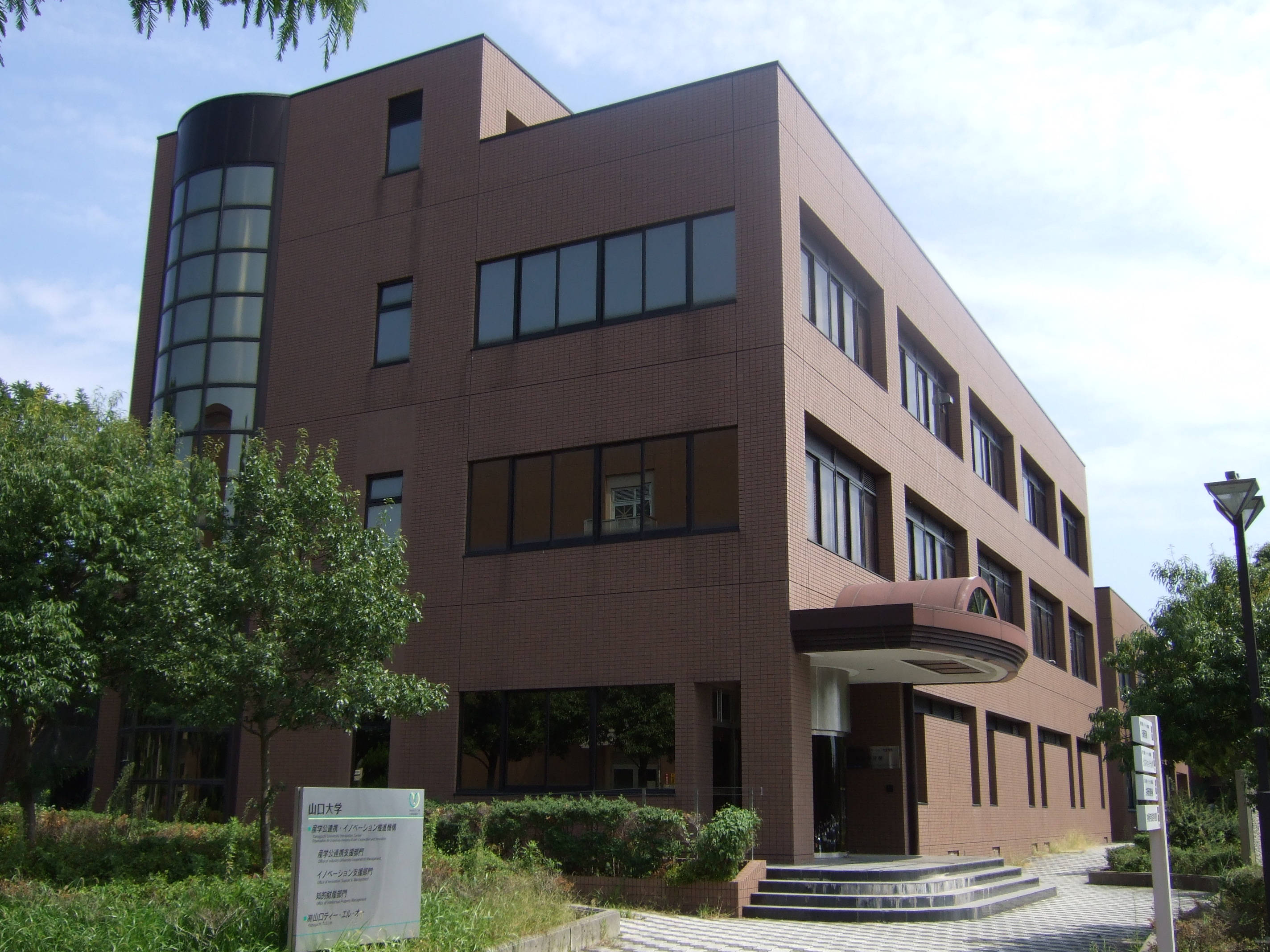 The Building of Innovation Center, Yamaguchi University